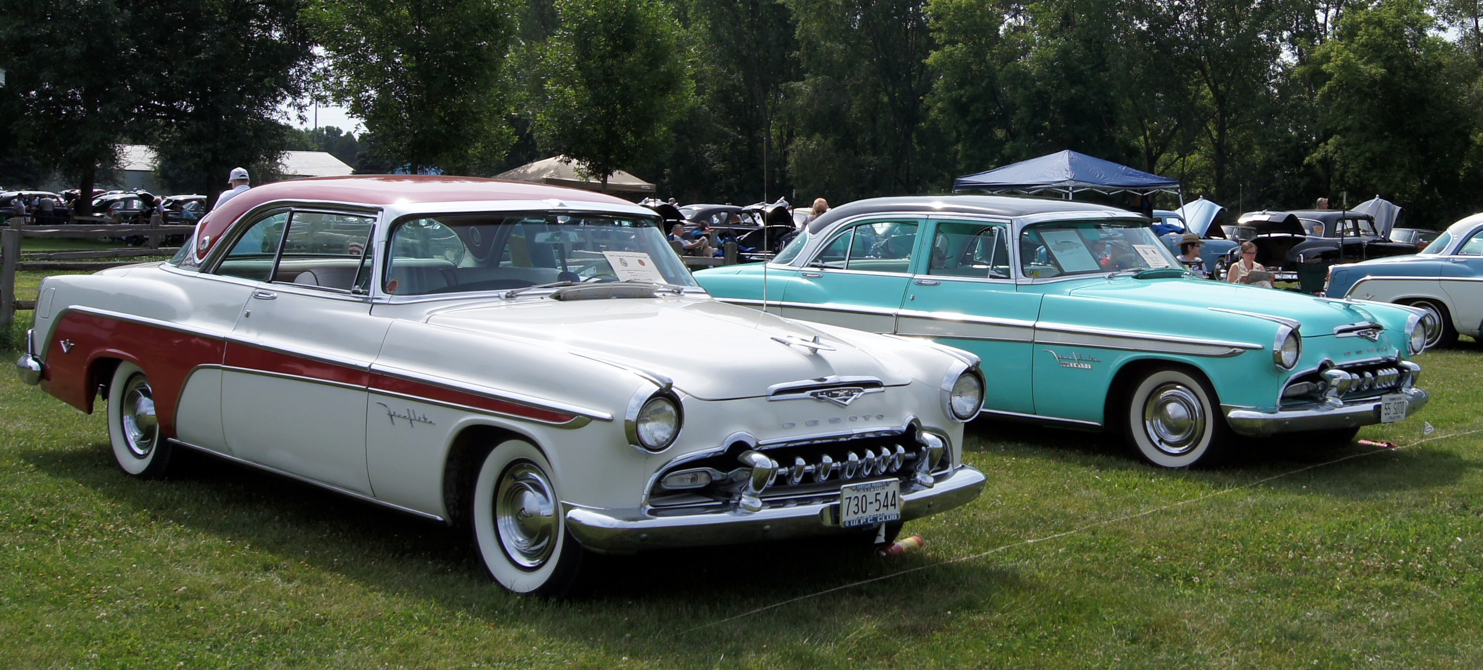 DeSoto Fireflite Sportsman 4-door (White/Red) and DeSoto Fireflite Coronado (Aqua/White/Black). 1st Combined Convention 28th Annual National DeSoto Club Convention & 44th Annual Walter P.Chrysler Club Convention July 17 - 21, 2013 Lake Elmo, Minnesota